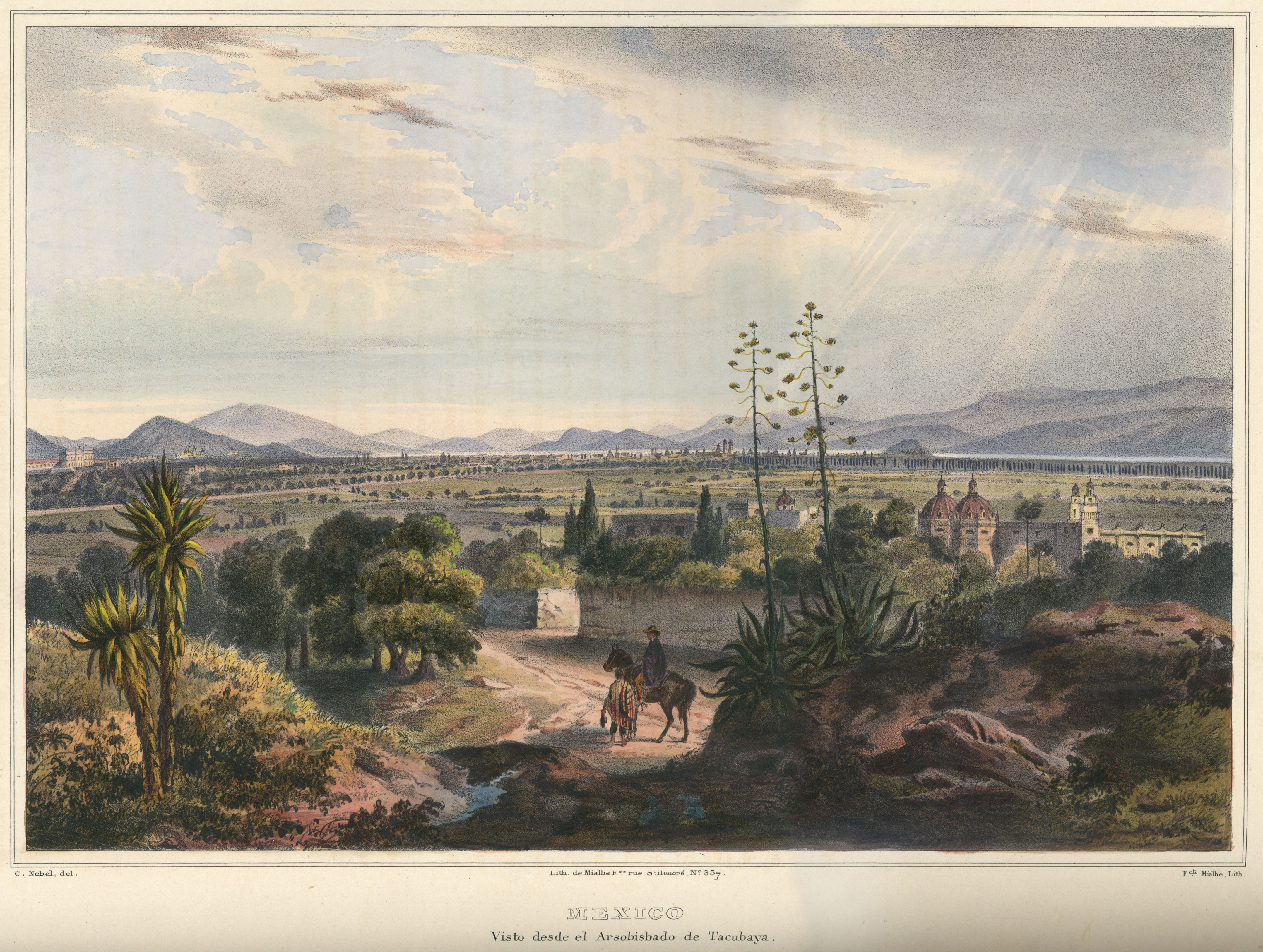 Mexico, visto desde el Arsobisbado de Tacubaya. Mexico City seen from Tacubaya. Hand-colored lithograph highlighted with gum arabic. Original size (neat lines): 35.9×24.6 cm.